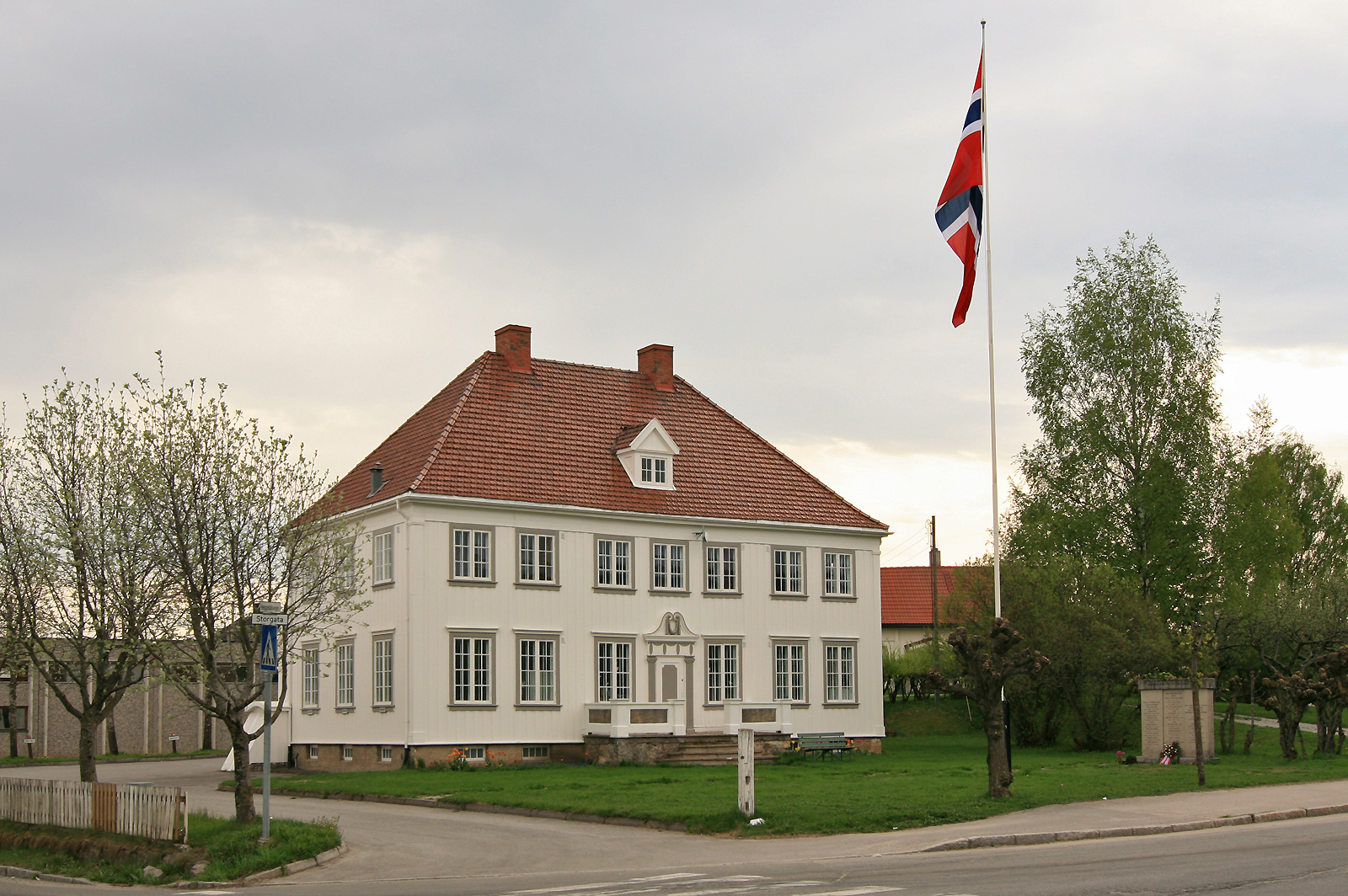 Sole; old town hall, Stange, Norway.